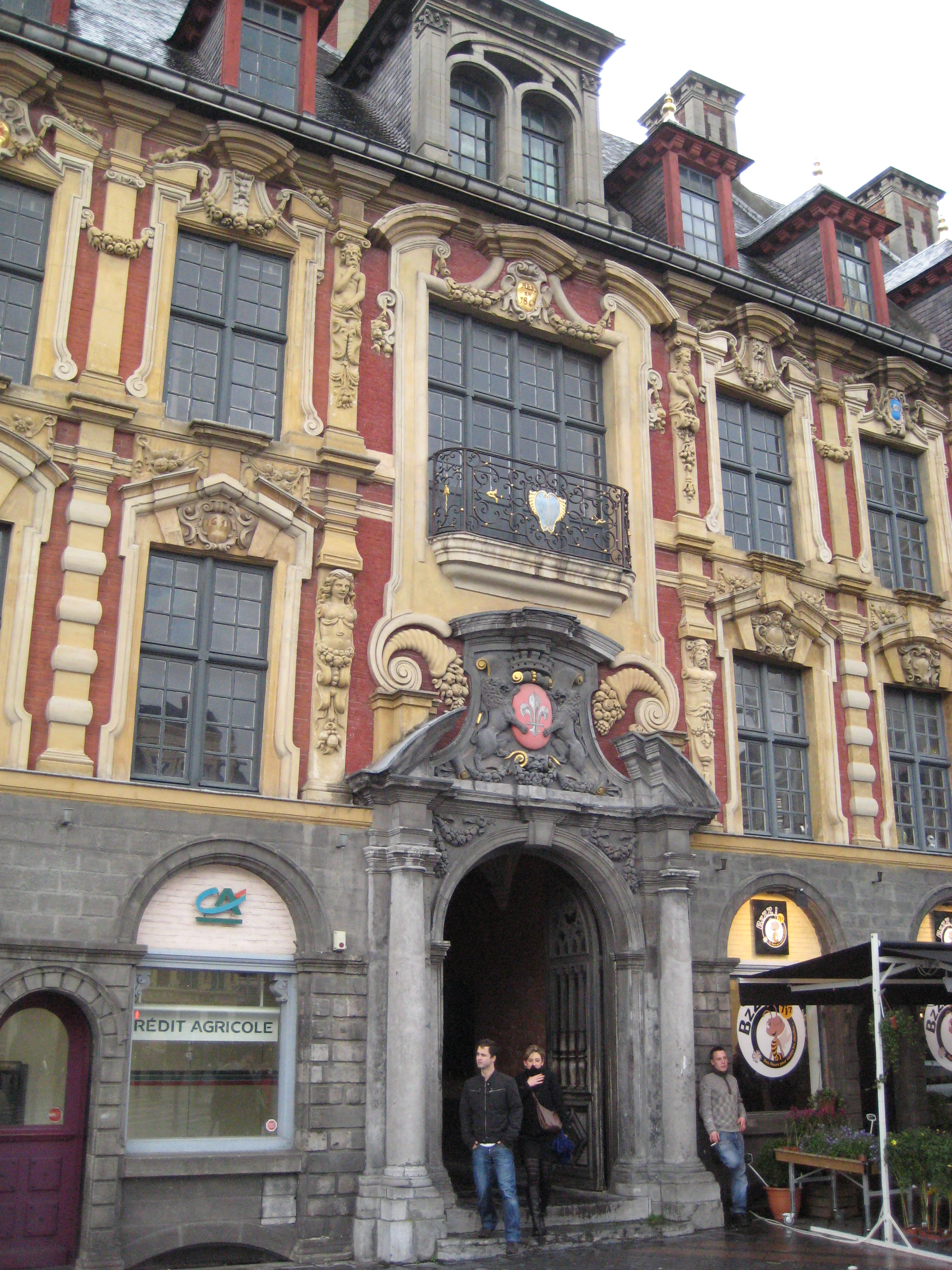 Lille Stock exchange